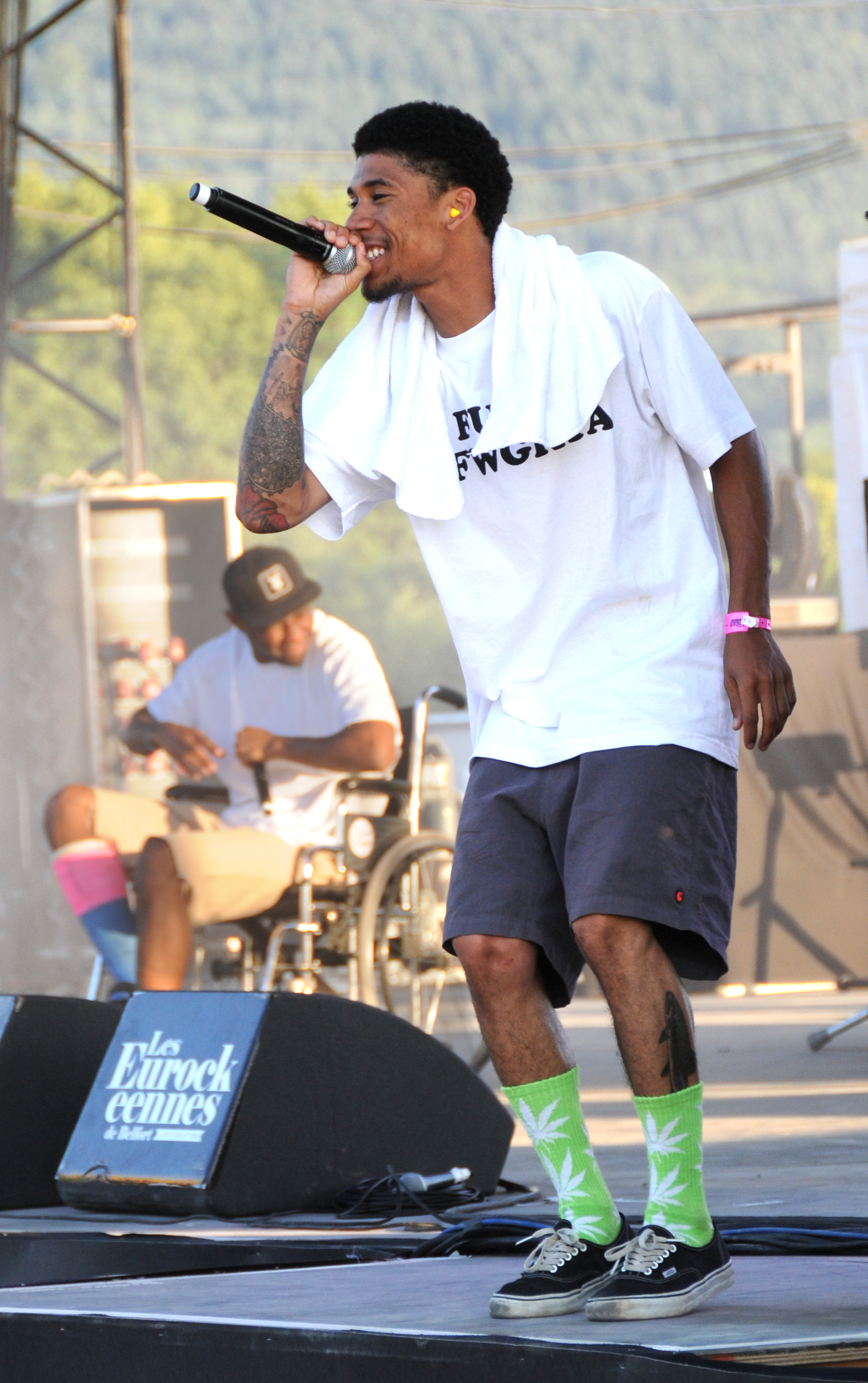 This photograph was taken with a Nikon D300 Personality rights warningAlthough this work is freely licensed or in the public domain, the person(s) shown may have rights that legally restrict certain re-uses unless those depicted consent to such uses. In these cases, a model release or other evidence of consent could protect you from infringement claims.